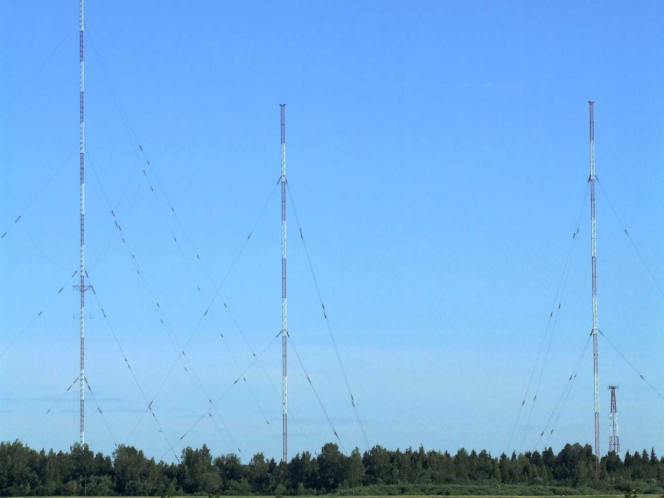 Radio Masts in Sitkūnai, Lithuania